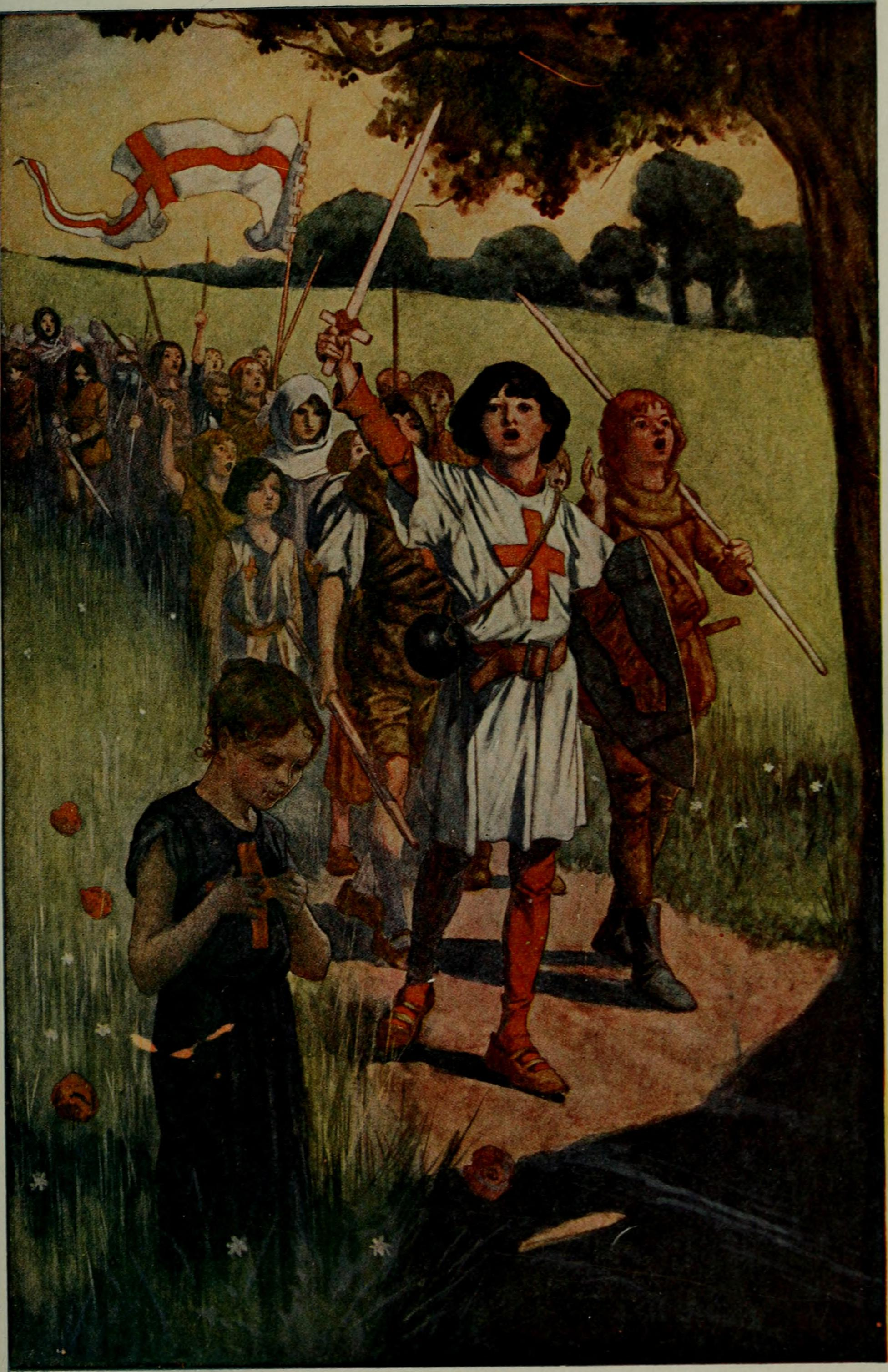 Title: Tales from far and near : history stories of other lands Year: 1915 (1910s) Authors: Terry, Arthur Guy Sheila Thibodeau Lambrinos Collection - York University Subjects: Publisher: Evanston, Ill. : Row, Peterson and Company Text Appearing Before Image: ross, or theCrusades. From many countries menwent to fight in the Holy Land. The city where Christ died on theCross is in the Holy Land. The peoplewho lived and ruled there did not loveand serve Him. So Christian menthought it would be a good and noble 49 thing to take Jerusalem from them.That is what men fought for in theWar of the Cross. Soldiers who went to this war werecalled Soldiers of the Cross. Each ofthem wore a cross upon his coat orcloak. The children saw their fathers andbrothers set out for the Holy Land,and heard a great deal about the longjourney over land and sea to Jeru-salem. Then they made crosses ofpaper or of cloth, and put them upontheir own clothing, and played at beinglittle Soldiers of the Cross. After a time, some of the biggerboys began to think it would be a bet-ter thing to go to the War of the Cross,and fight for Jerusalem, than to playat doing so. I am sorry to say that a few of thepreachers told them this. They saidthat the childrens weak little arms 50 Text Appearing After Image: LITTLE SOLDIERS OF THE CROSS